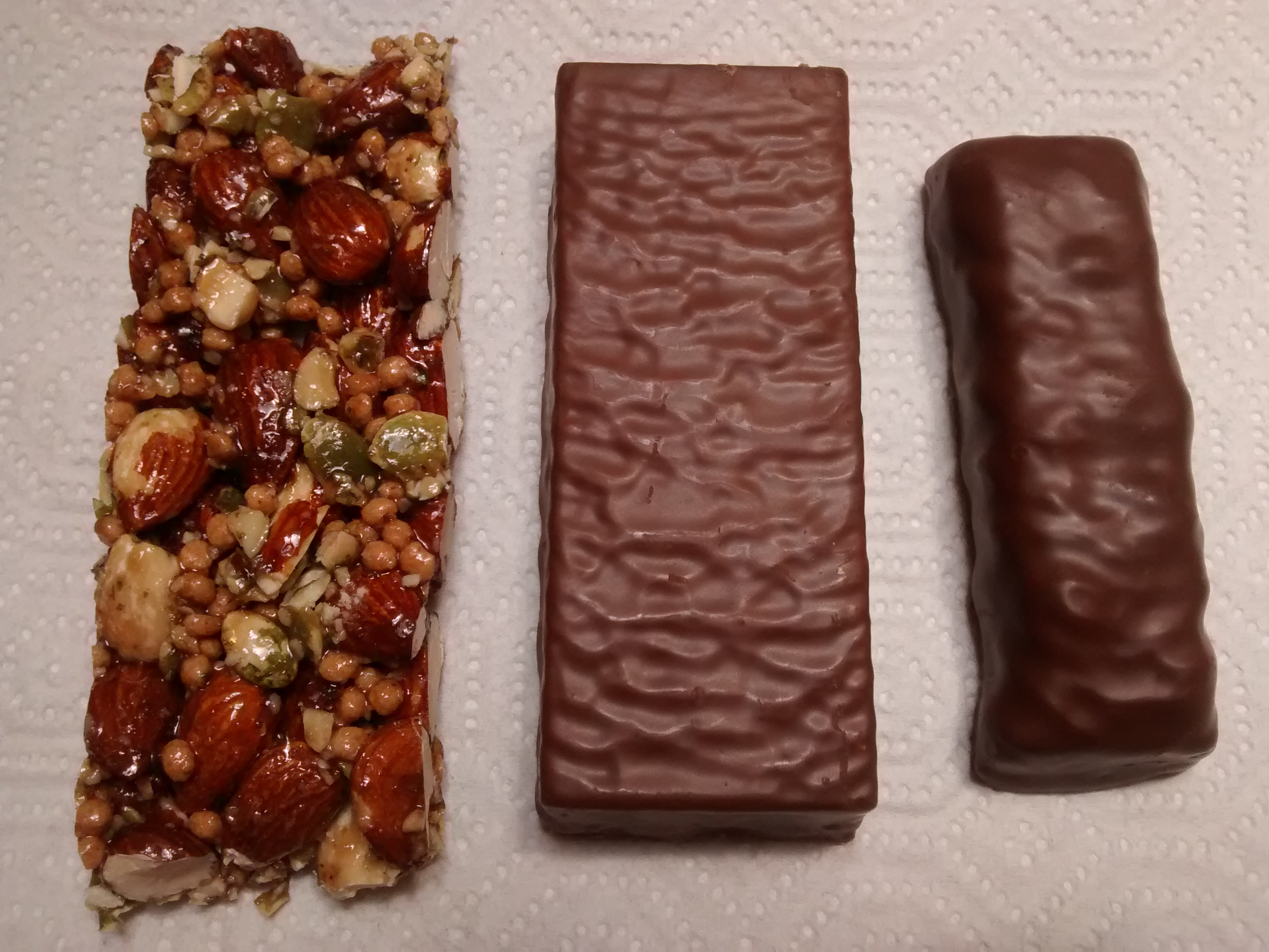 Left: STRONG & KIND Hickory smoked almond protein bar made by Kind (company) Center: Clif Chocolate Mint Builder's Bar made by Clif Bar & Company Right: LUNA Protein Mint Chocolate Chip bar made by Clif Bar & Company